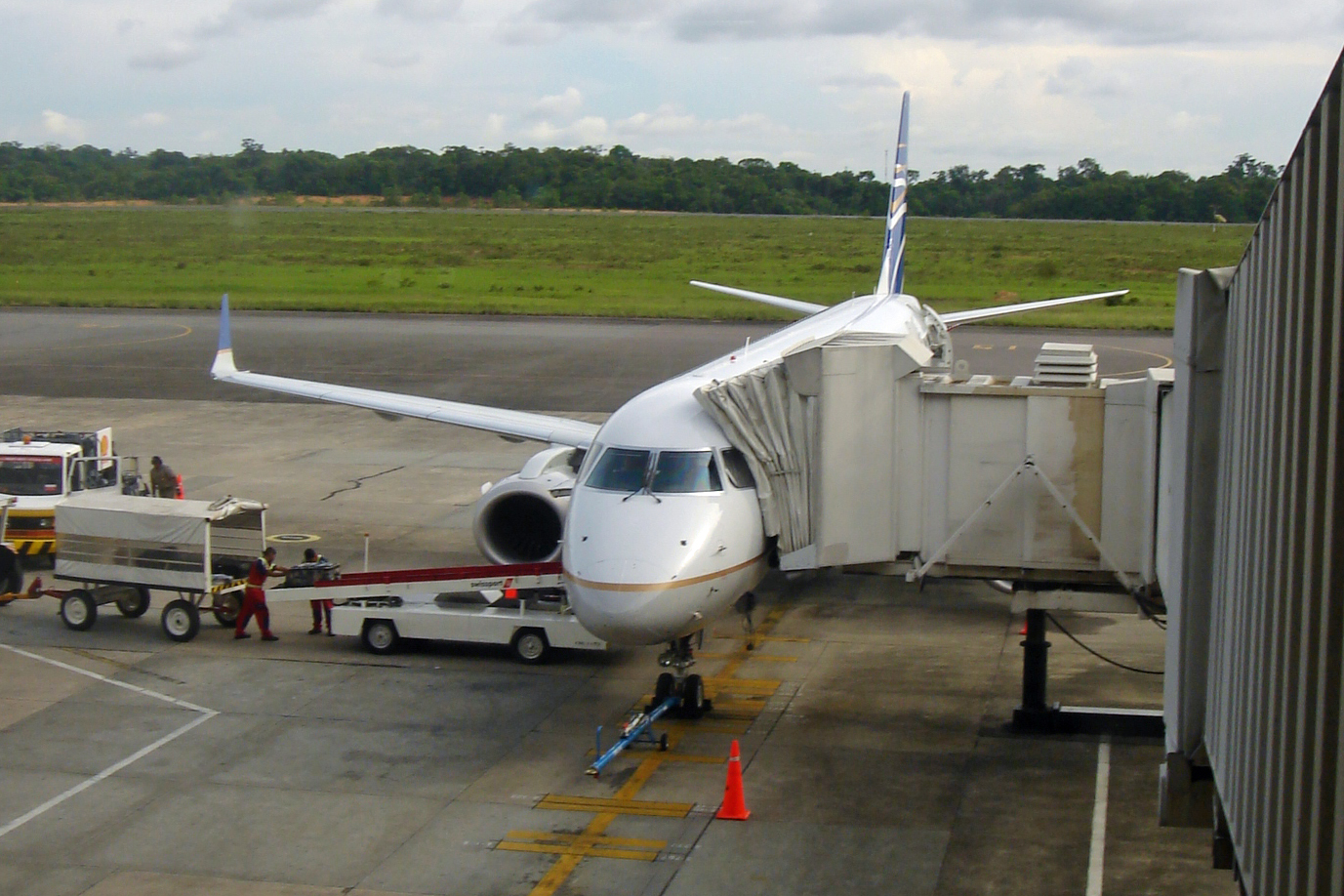 COPA Airlines Embraer 190 at Manaus International Airport, Manaus, Brazil, servicing the international route Manaus-Panama City